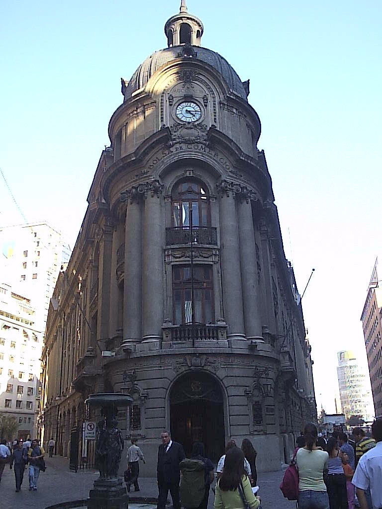 Santiago Stock Exchange